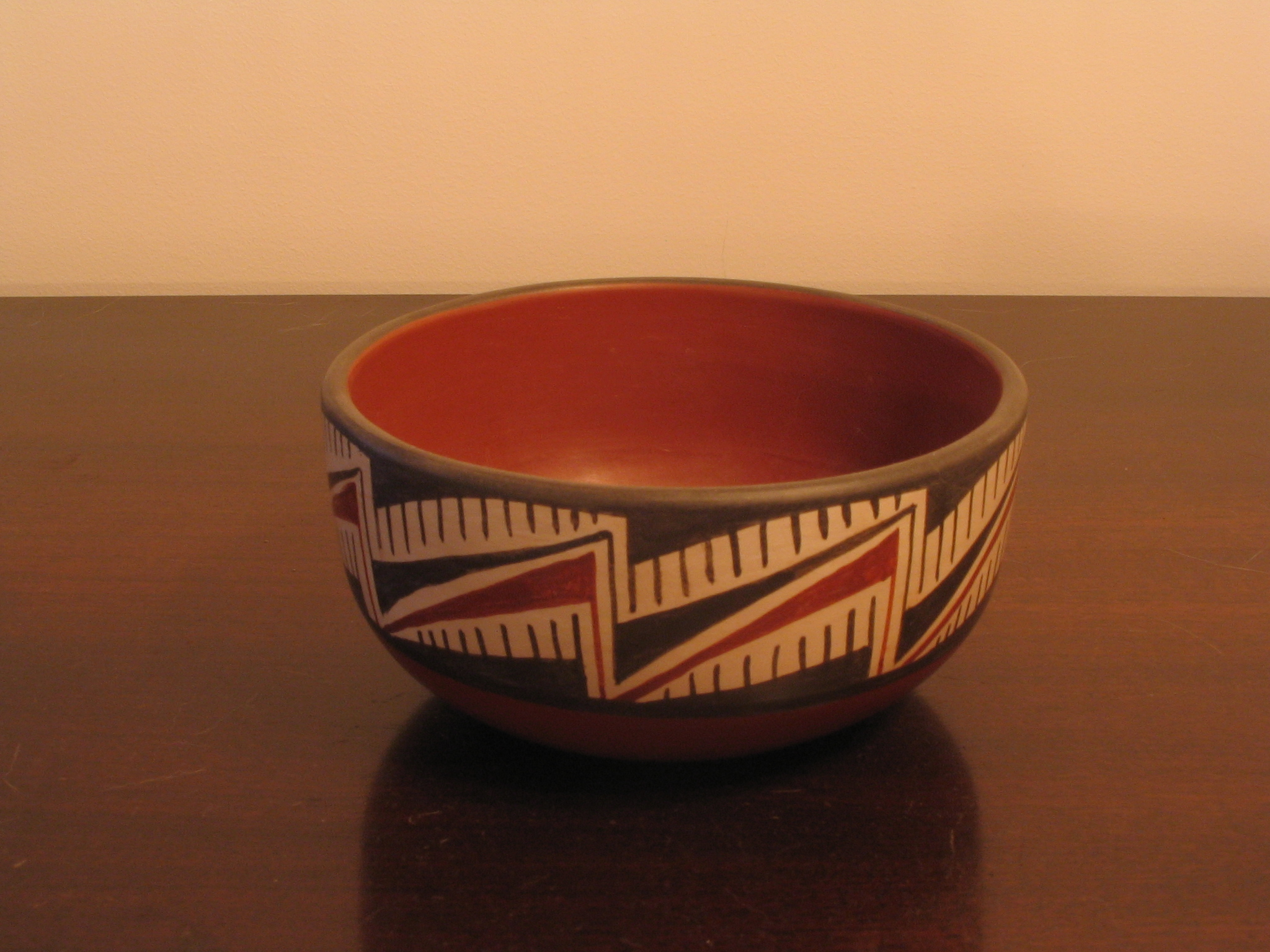 Modern replica of a Diaguita bowl from northern Chile, ca. 900-1470 AD. The original is in the Chilean Museum of Pre-Columbian Art.